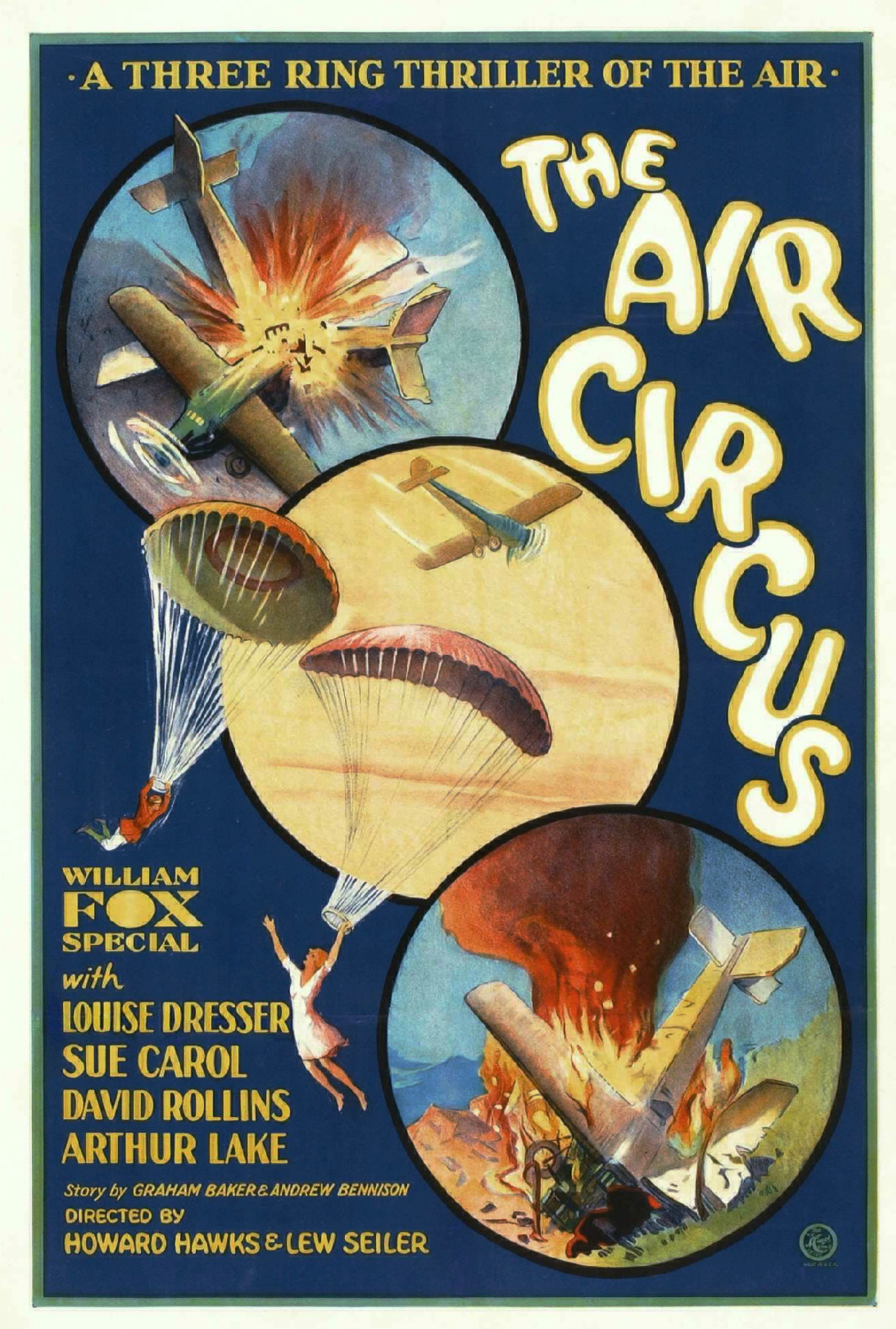 Poster for the 1928 film The Air Circus. There are no copyright marks. At bottom right is the logo of the H.C. Miner Litho Co.-they printed the poster, and Made in USA.